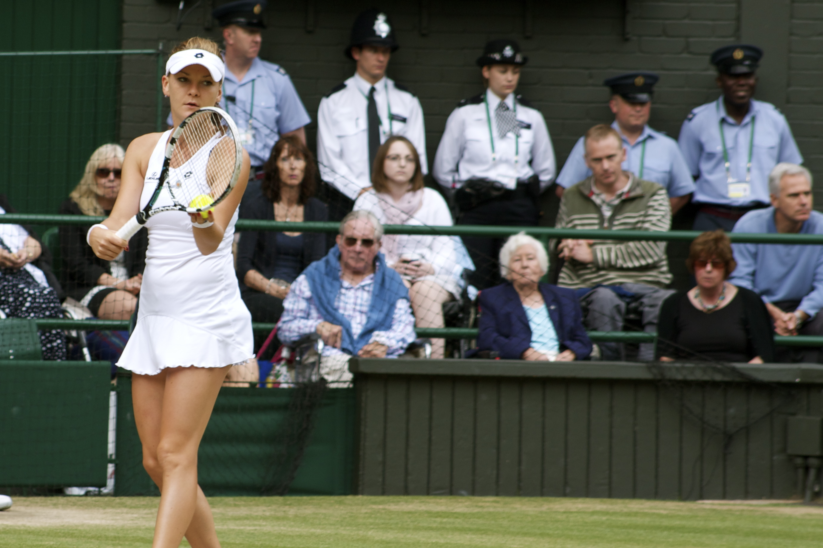 Agnieszka Radwańska preparing to serve in the final of the 2012 Wimbledon Ladies' Singles competition